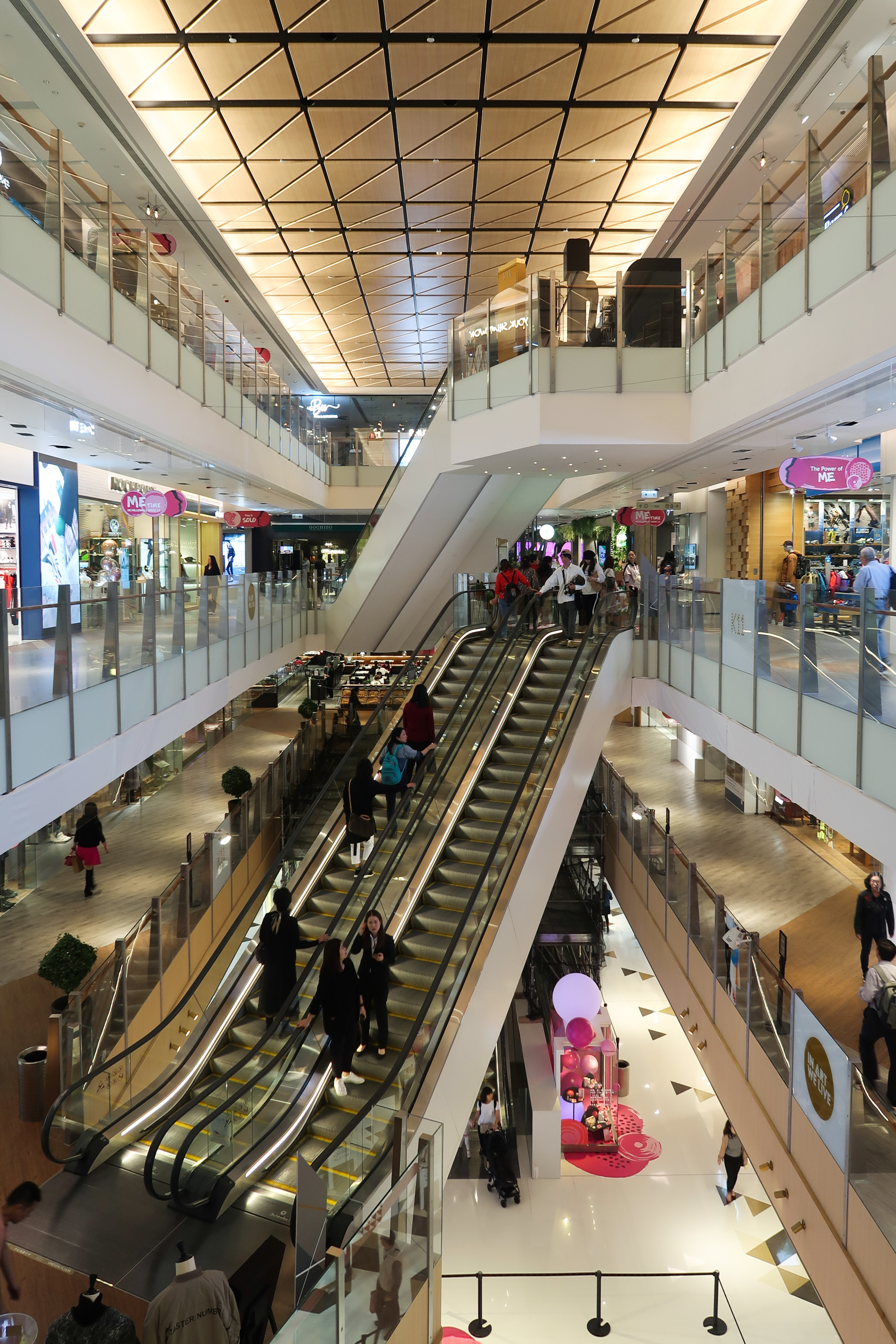 K11 Atrium during renovation